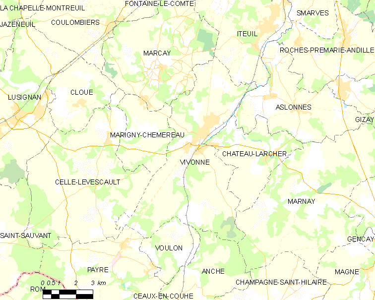 Map of French municipality Vivonne